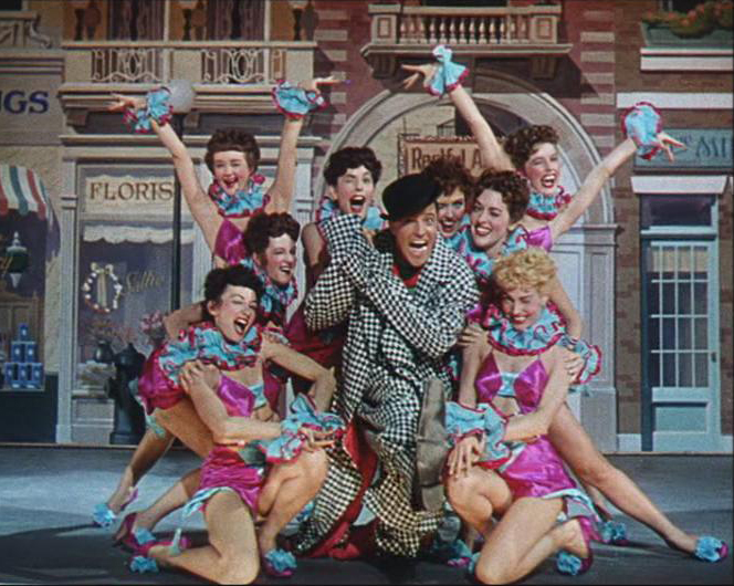 Gene Kelly and girls in Singin' in the Rain trailer